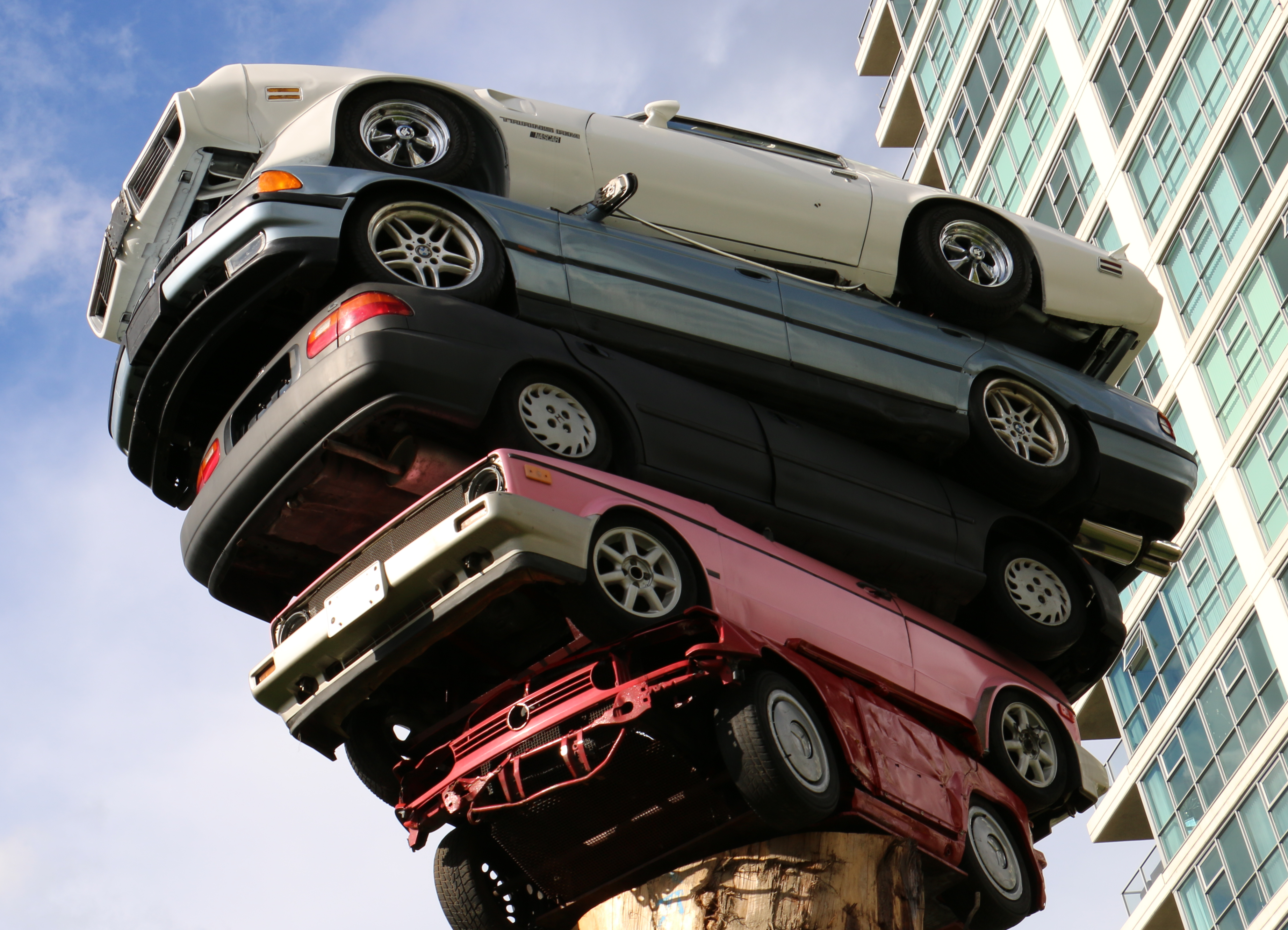 Trans Am Totem, a piece of public art in Vancouver, British Columbia, Canada. Located in the False Creek area. Part of the Vancouver Biennale, 2015 Artist: Marcus Bowcott Dimensions: 10 meters high, 11,340 kilograms Materials: 5 scrap cars and a cedar tree